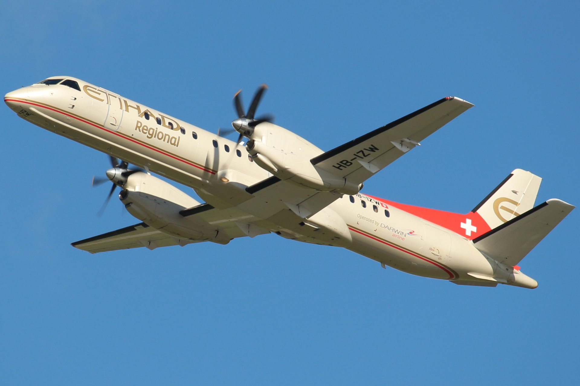 Take off at DUS